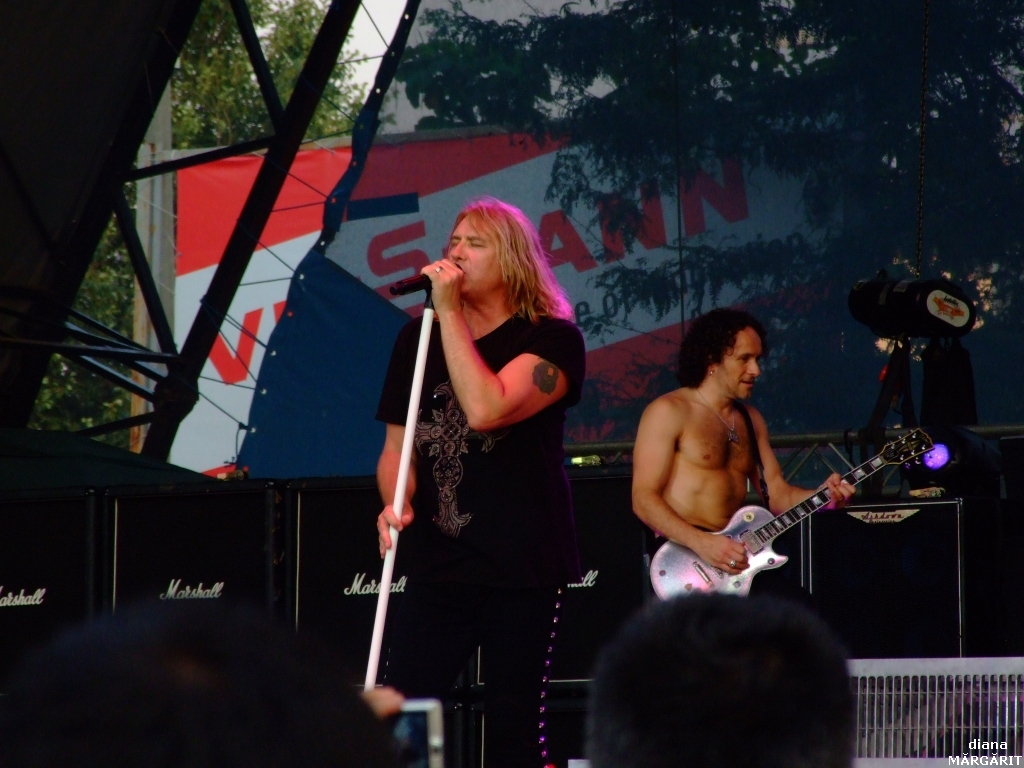 Joe Elliott and Vivian Campbell (from Def Leppard) [Fujifilm FinePix S6500fd]